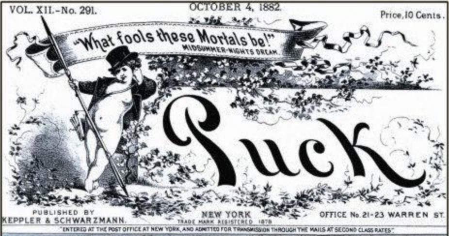 Banner heading of "Puck" magazine